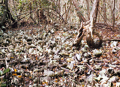 Conch and whelk shells piles or midden left behind by Native Americans in Biscayne National Park